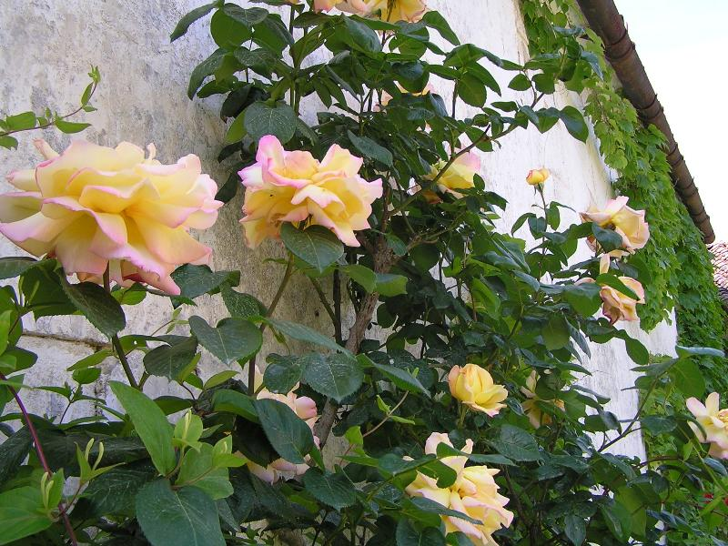 Rosa 'Mme Meilland' ('Peace')